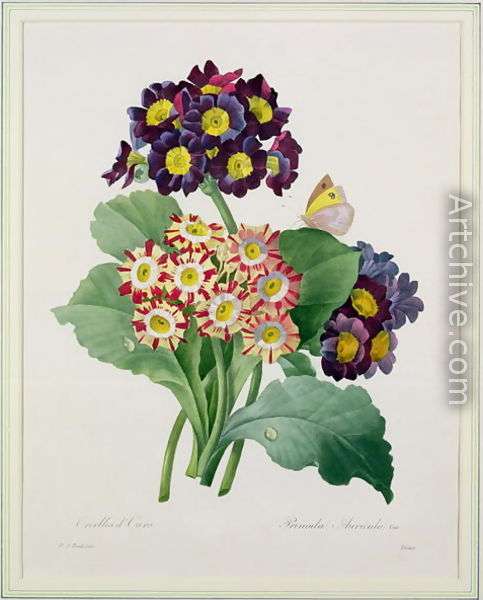 Painting of varied Primula auricula by Pierre Joseph Redoute (1790-1873)